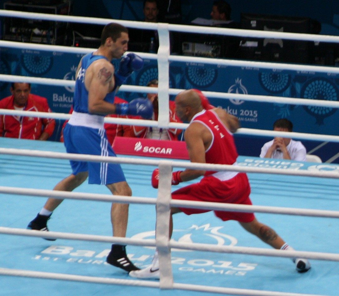 Teymur Mammadov vs Valentino Manfredonia at the 2015 European Games (Final)